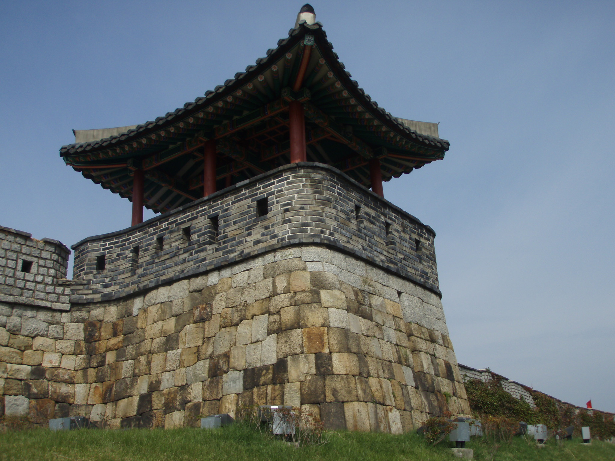 Exterior